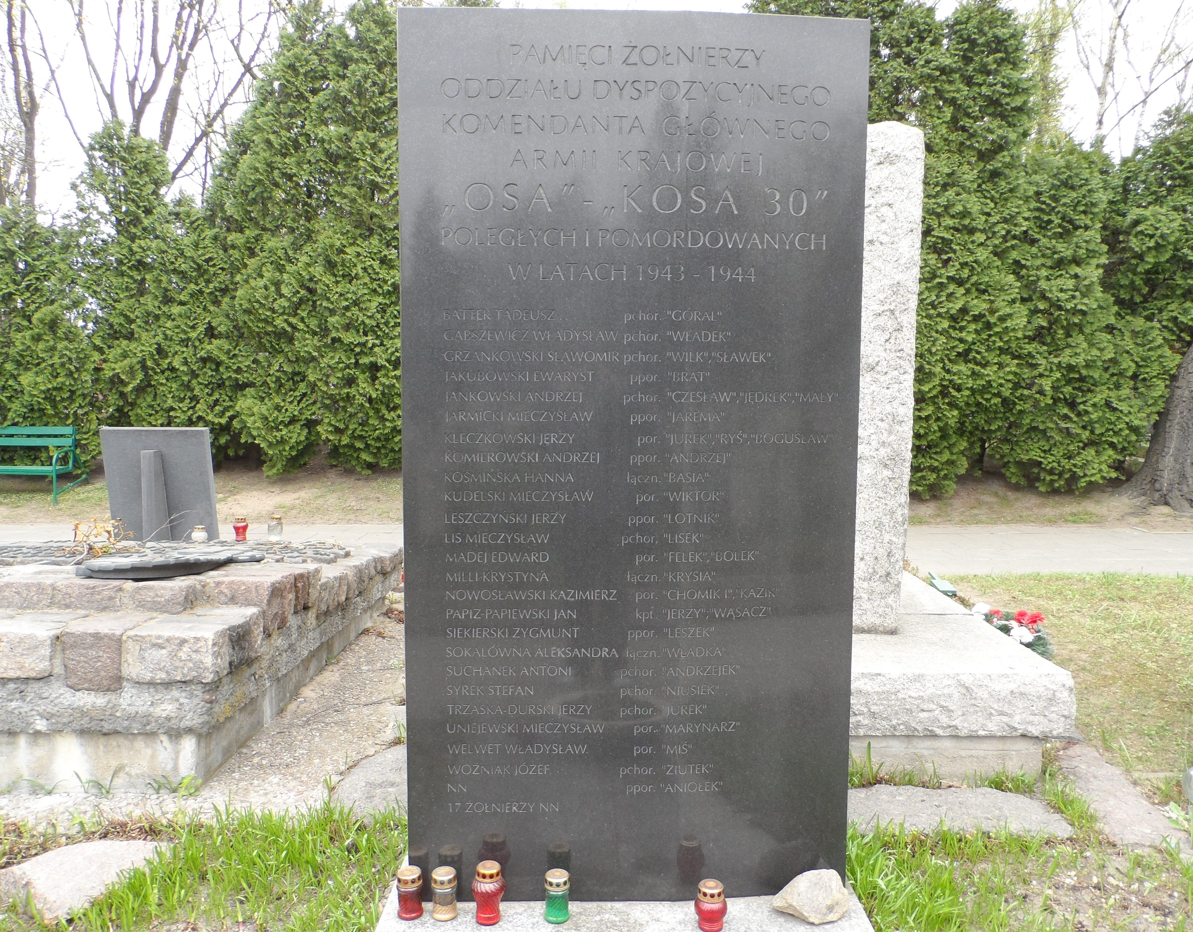 Plaque at military cemetery in Warsaw, commemorating soldiers of special unit “Osa”-“Kosa 30” (part of underground Home Army) kiled in the World War II.